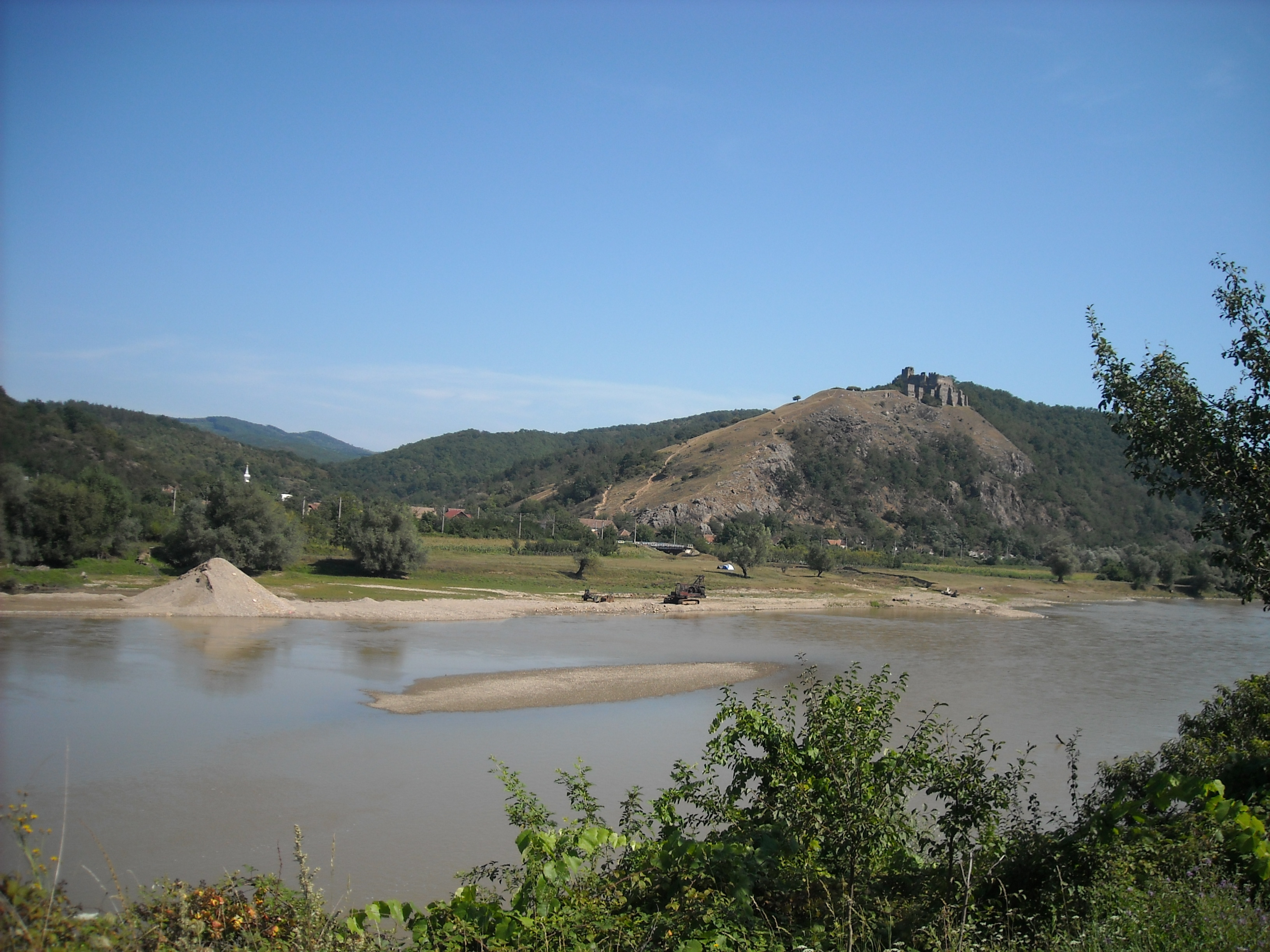 castle and village of Şoimoş (Solymosvár – near Lipova/Lippa in Romania), with the Mureş (Maros) river in the foreground